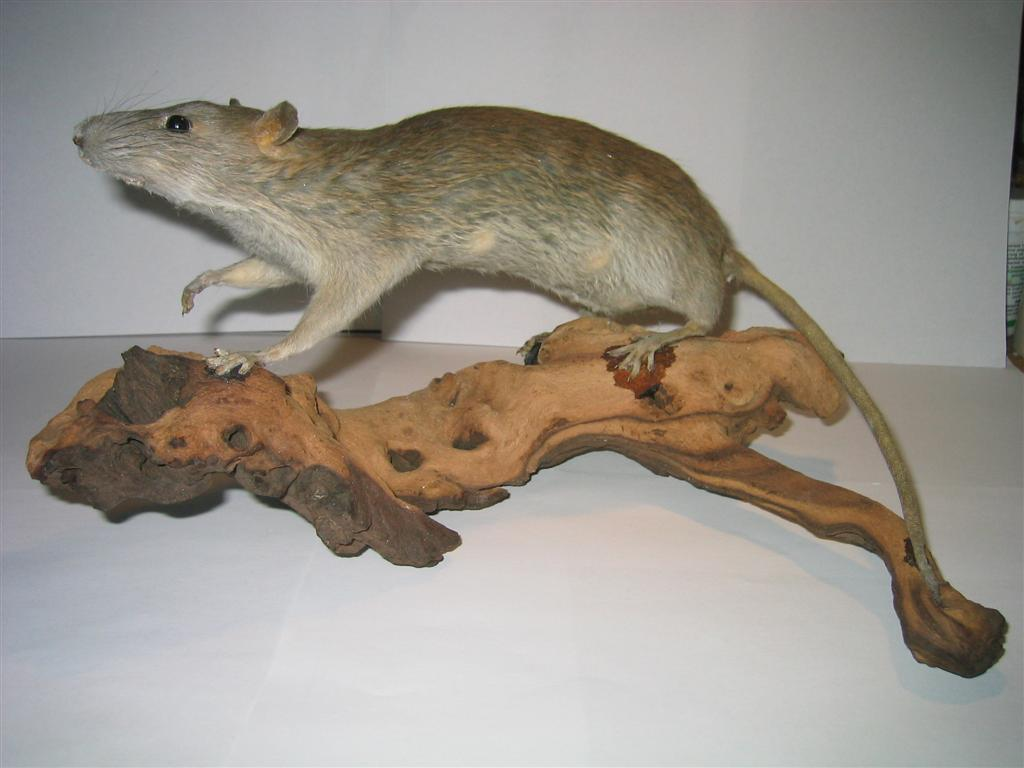 Preparation of a brown rat on wood